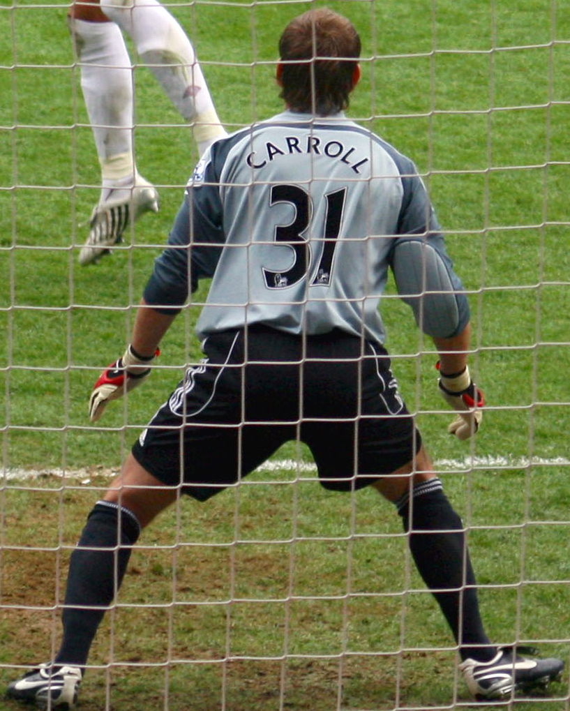 Roy Carroll. Image cropped from original at flickr.